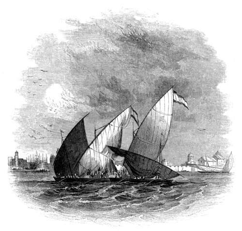 Guilalo ships in Manila Bay (c. 1848). Guilalo were light double outrigger vessels with characteristic settee sails. They were common in Manila Bay where they were used to transport goods and passengers from Manila to Cavite, and vice versa.